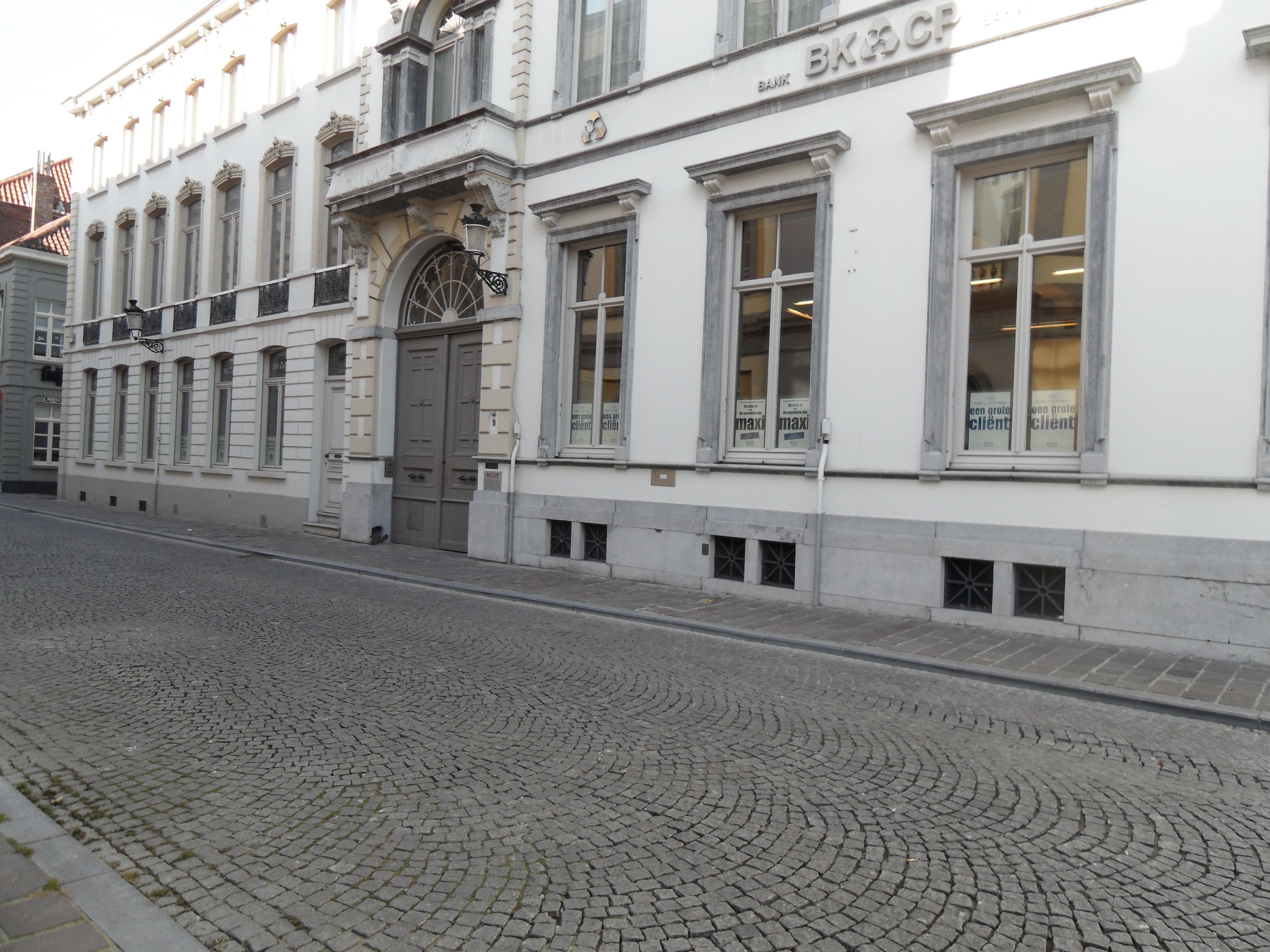 Adriaan Willaertstraat in Brugge